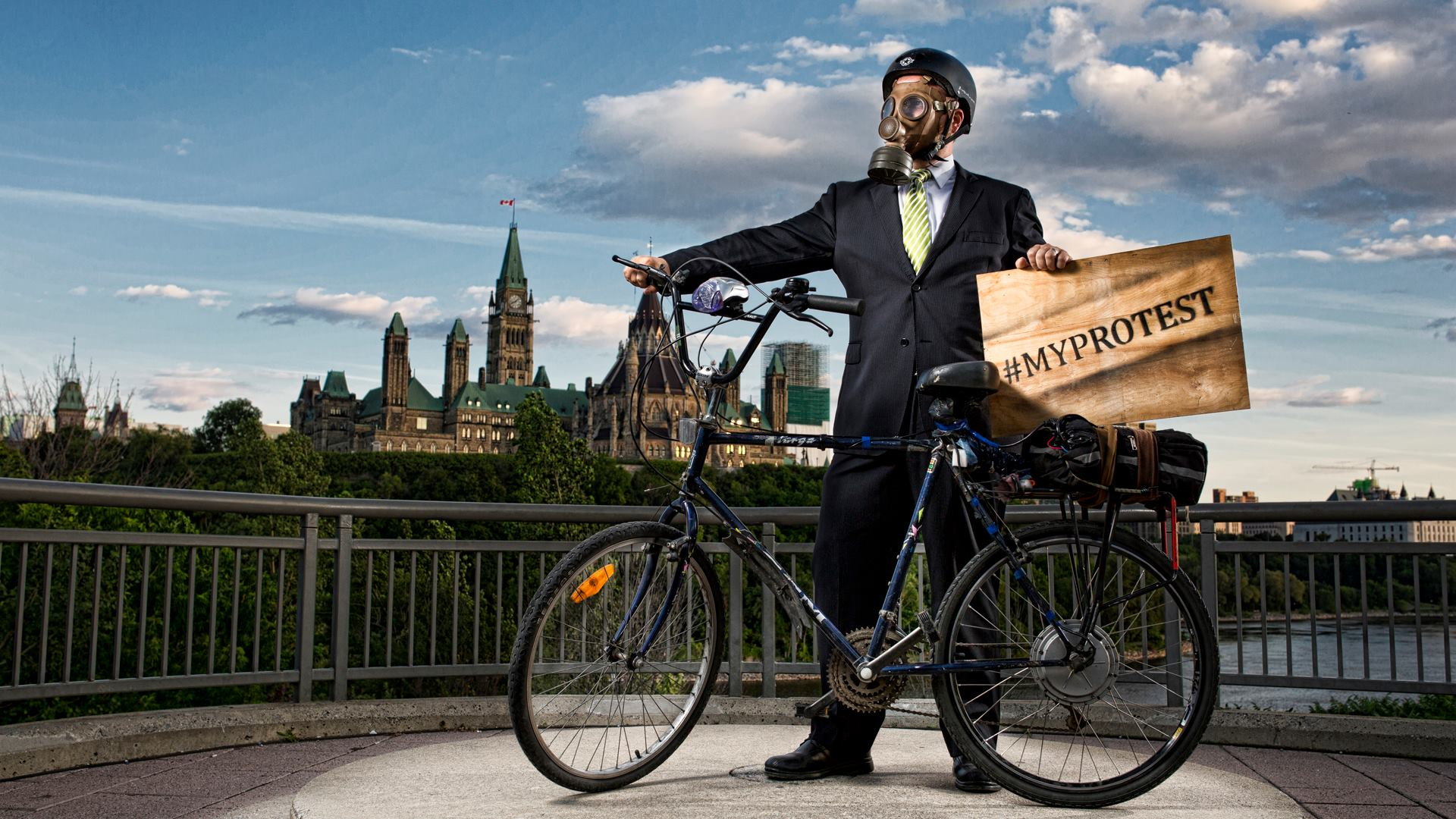 Artist Marc Adornato documenting the #MYPROTEST performance piece.